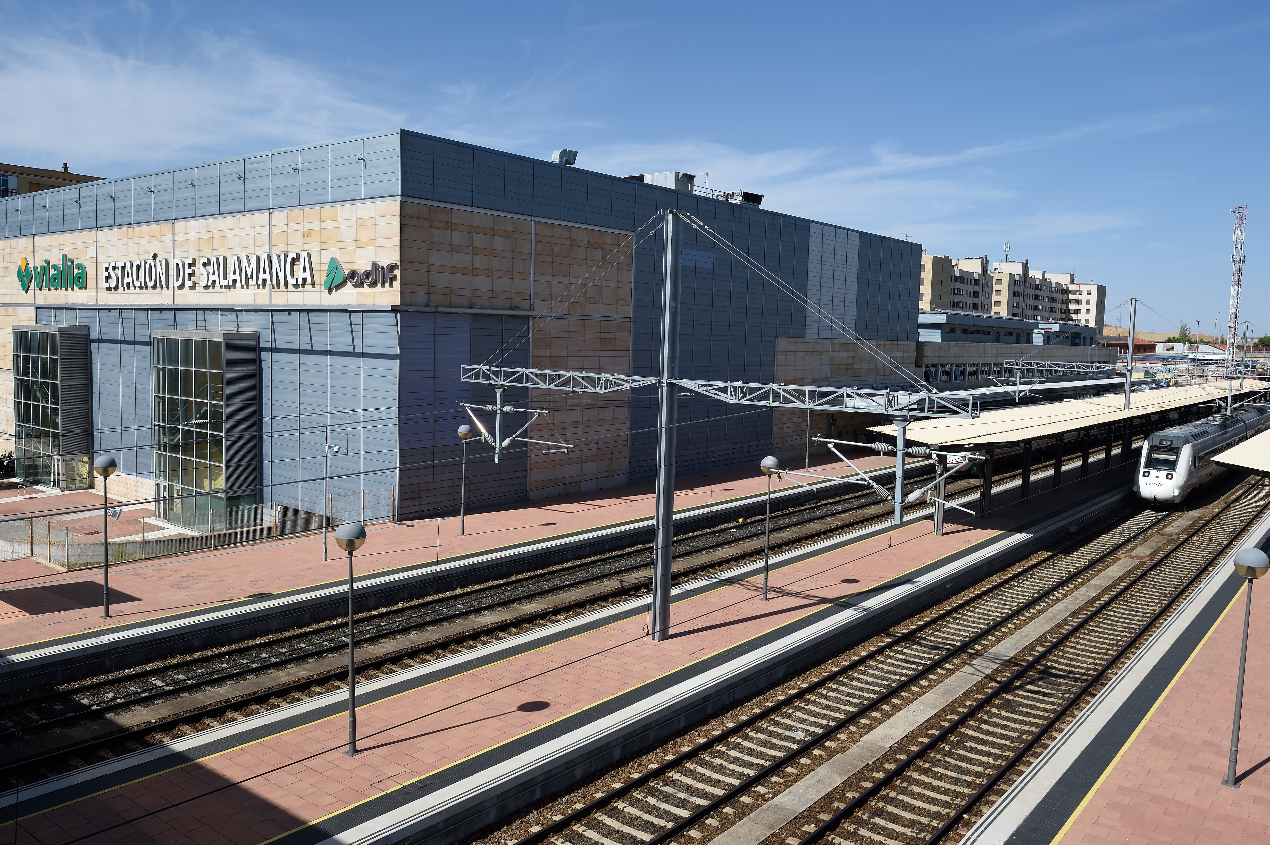 A little over a mile from tourist attractions in city center. I rode a Salamanca de Transportes 4 bus: ... into town in the morning, but decided to walk back in the afternoon for my return trip to Madrid. Salamanca is ten miles farther from Madrid than San Diego is from Los Angeles. For this route, Renfe offered rides on several slow trains, and a few fast ones. I chose the fast: about an hour and a half each way, past many acres of farmland. Doable as a day trip, although many tourists will bridle at the prospect of three hours total travel time to-and-from. See the logos on the station and the train? ADIF manages rail infrastructure; Renfe makes the trains go. Learn more at my blog post on Spain rail rides, shamelessly plugged once again at